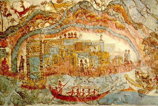 fresco from the bronze age excavation of Akrotiri, Santorini, Greece. This image shows a cycladic town and boats in its harbour.